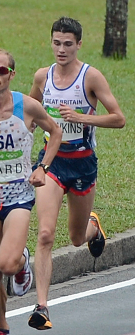 Rio de Janeiro - Sob chuva forte atletas da maratona masculina passam pelo aterro do Flamengo (Tânia Rêgo/Agência Brasil)